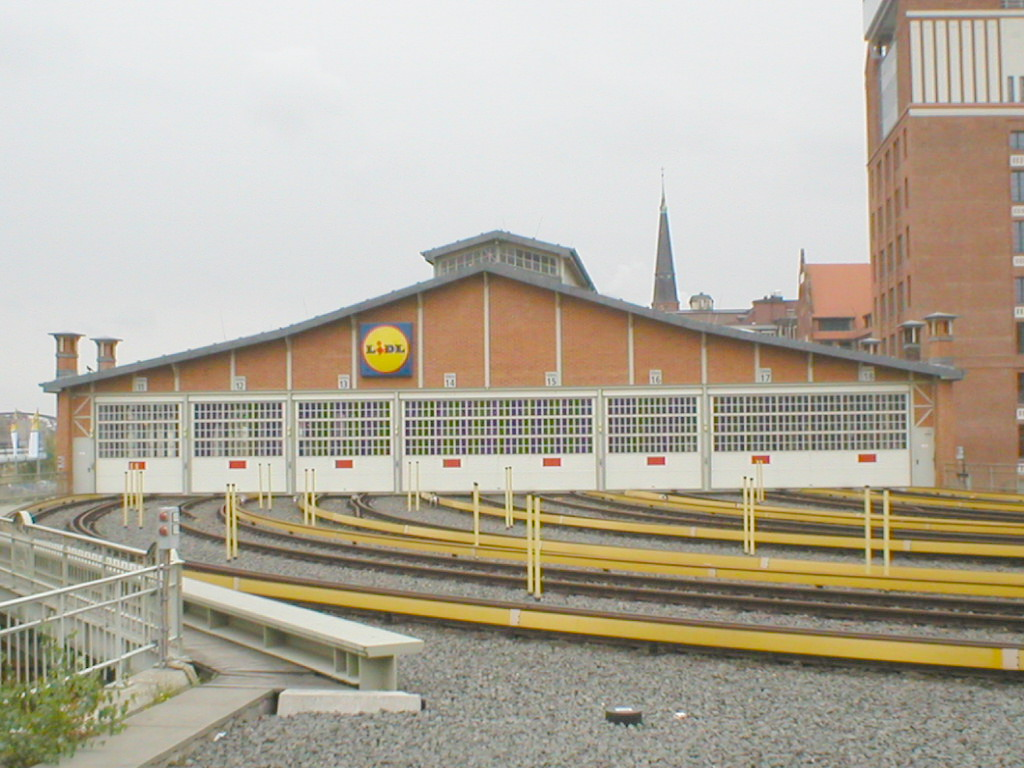 Train hall/depot at the Berlin U-Bahn station Warschauer Straße